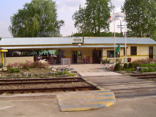 Maseok Station.